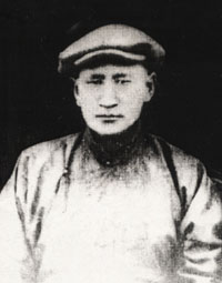 Dogsomyn Bodoo Монгол: Догсомын Бодоо